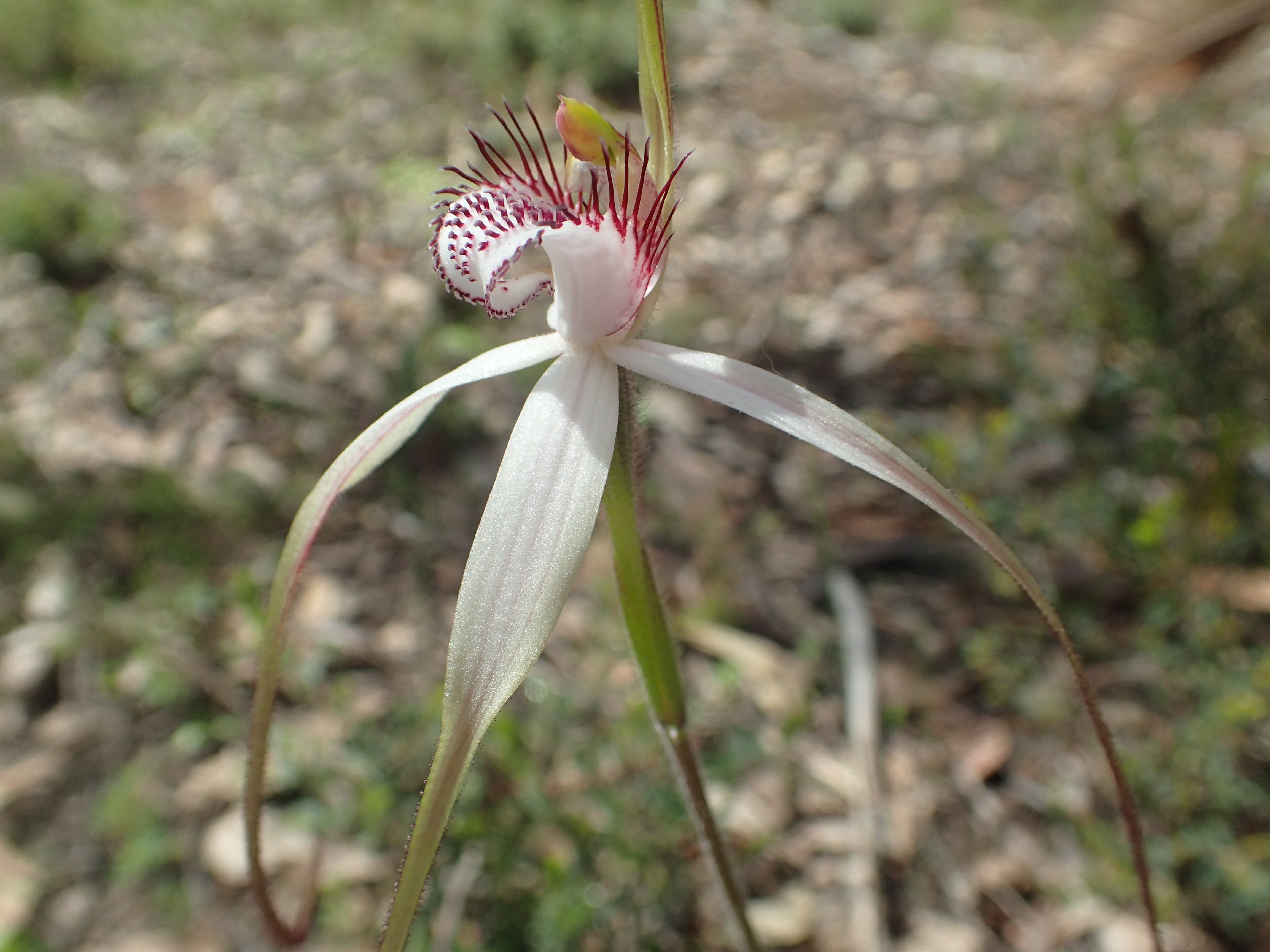 Caladenia longicauda subsp. redacta near West Talbot Road in the Mundaring State Forest in Western Australia